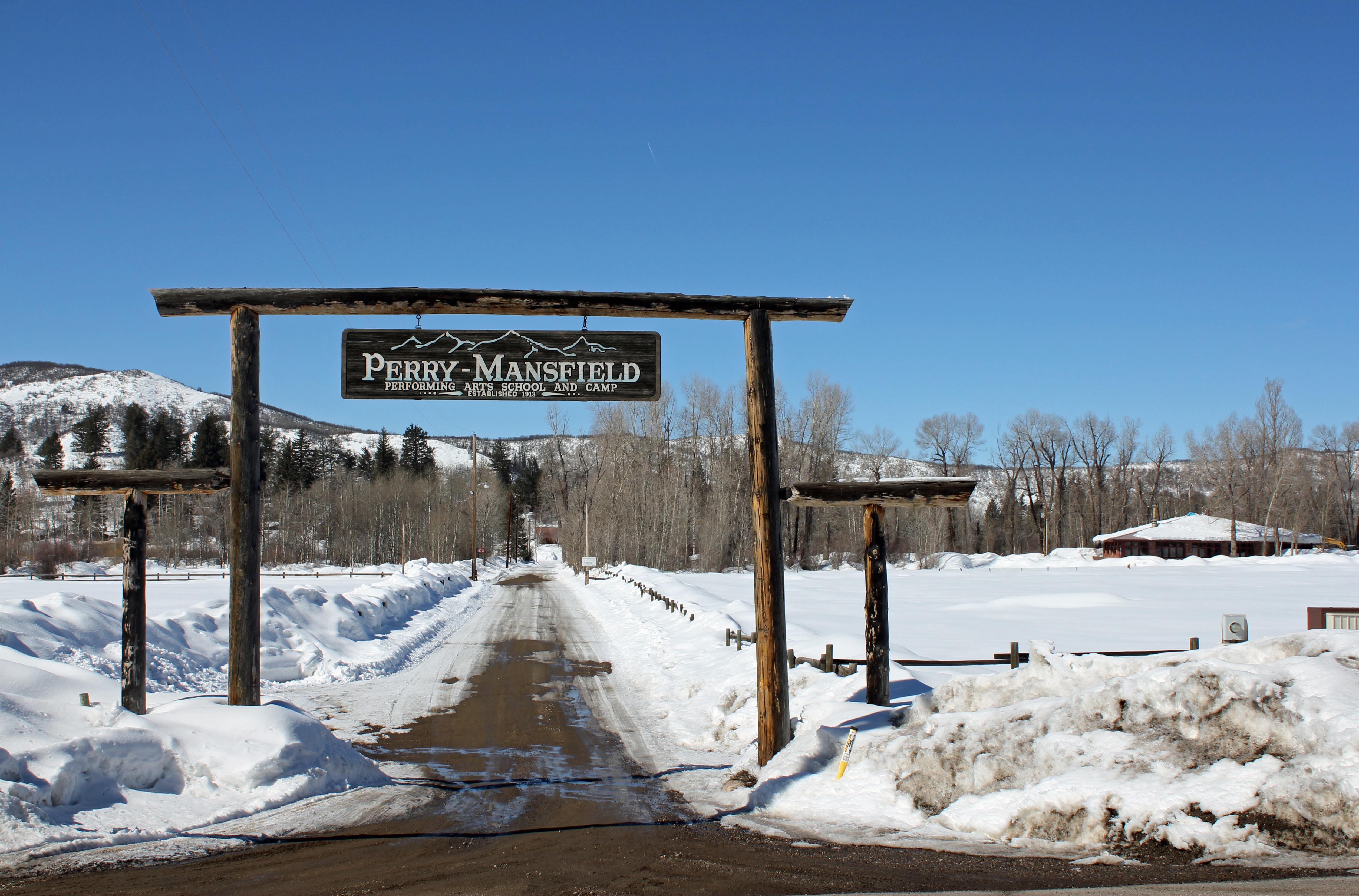 The entrance to the Perry-Mansfield School of Theatre and Dance, located at 40755 Routt County Road 36, just outside Steamboat Springs, Colorado.